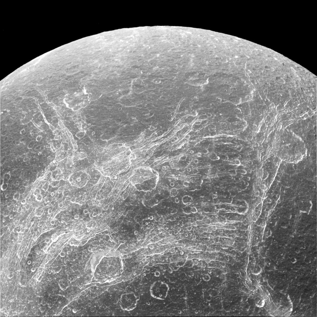 PIA18327: Chasms on Dione Some parts Dione's surface are covered by linear features, called chasmata, which provide dramatic contrast to the round impact craters that typically cover moons. This image was captured by NASA's Cassini spacecraft. While not bursting with activity like its sister satellite Enceladus, the surface of Dione is definitely not boring. Some parts of the surface are covered by linear features, called chasmata, which provide dramatic contrast to the round impact craters that typically cover moons. The bright network of fractures on Dione (698 miles or 1123 kilometers across) was seen originally at poor resolution in Voyager images and was labeled as "wispy terrain." The nature of this terrain was unclear until Cassini showed that they weren't surface deposits of frost, as some had suspected, but rather a pattern of bright icy cliffs among myriad fractures. One possibility is that this stress pattern may be related to Dione's orbital evolution and the effect of tidal stresses over time. This view looks toward the trailing hemisphere of Dione. North on Dione is up. The image was taken in visible light with the Cassini spacecraft narrow-angle camera on April 11, 2015. The view was acquired at a distance of approximately 68,000 miles (110,000 kilometers) from Dione. Image scale is 2,200 feet (660 meters) per pixel. The Cassini mission is a cooperative project of NASA, ESA (the European Space Agency) and the Italian Space Agency. The Jet Propulsion Laboratory, a division of the California Institute of Technology in Pasadena, manages the mission for NASA's Science Mission Directorate, Washington. The Cassini orbiter and its two onboard cameras were designed, developed and assembled at JPL. The imaging operations center is based at the Space Science Institute in Boulder, Colorado. For more information about the Cassini-Huygens mission visit and The Cassini imaging team homepage is at